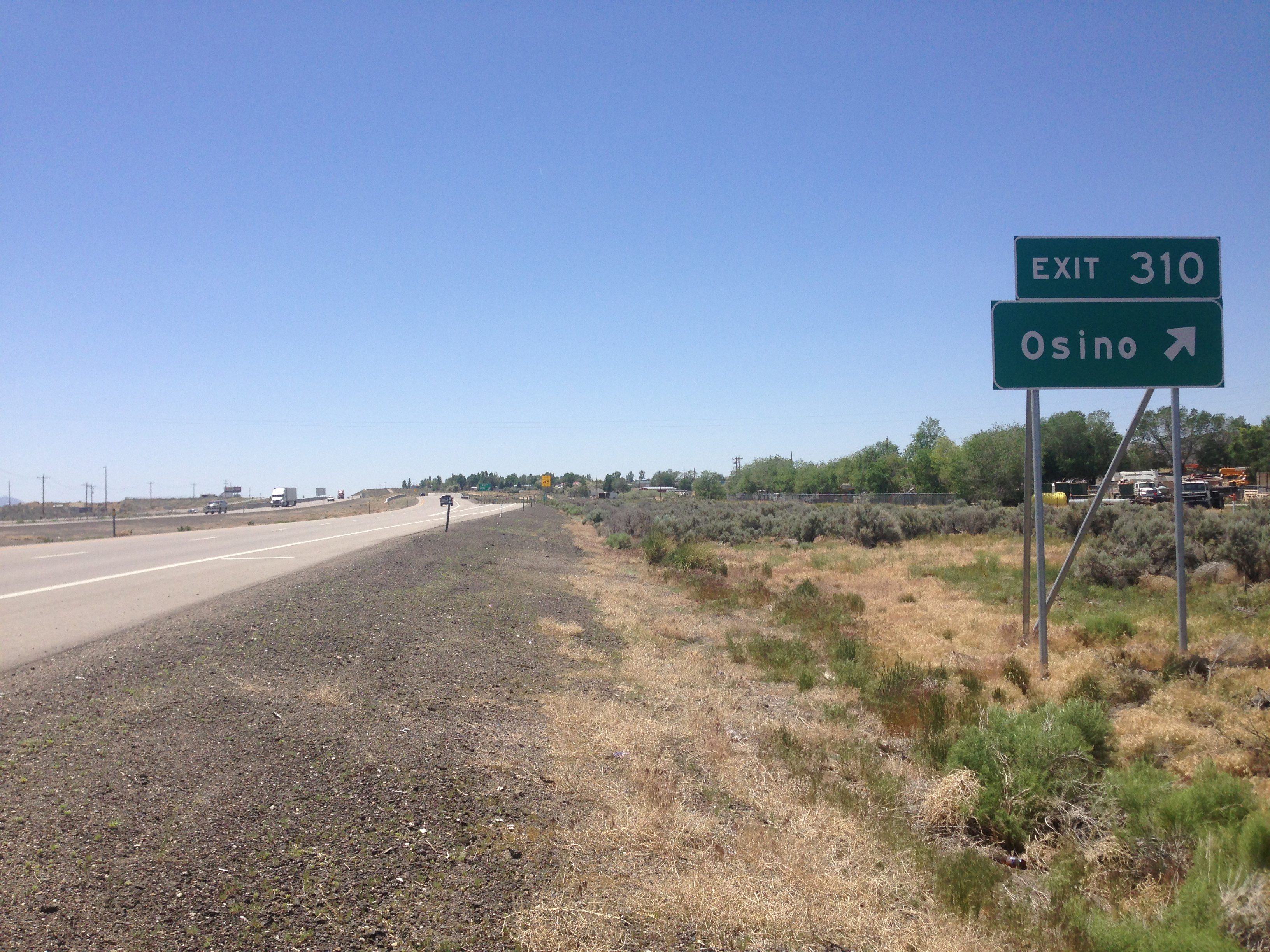 Sign for Exit 310 along westbound Interstate 80 in Osino, Nevada